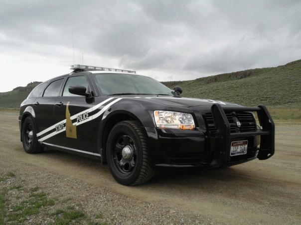 Idaho State Police Dodge Magnum, ISP516.